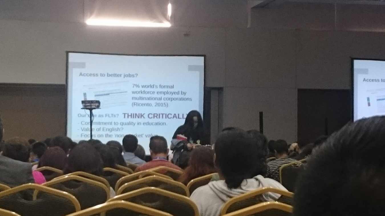 Percentage of the labor force working for multinational companies.